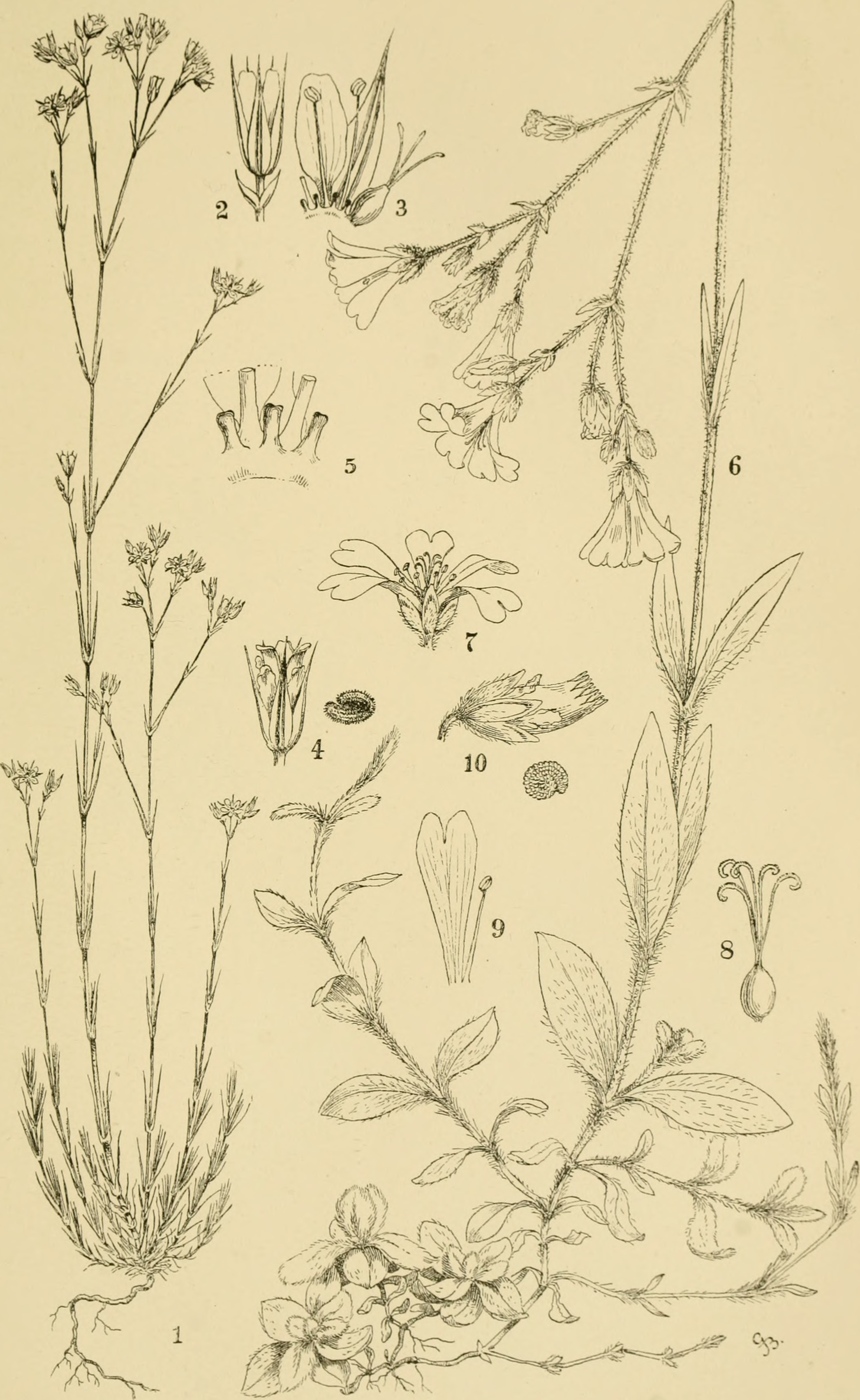 Title: Annalen des Naturhistorischen Museums in Wien Year: 1891 (1890s) Authors: Naturhistorisches Museum (Austria) Subjects: Naturhistorisches Museum (Austria); Natural history Publisher: Wien, Naturhistorisches Museum [etc. ] Text Appearing Before Image: G. Beck. Flora von Sudbosnien. Tat. VII. Taf. Vlir. Text Appearing After Image: Autor dcl. 1—5 Alsine bosniaca G. Beck. 6—10 Cerastium nioesiacum Friv Annalen des k. k. naturhist. Hofmuscums, Band \'I, 1891.